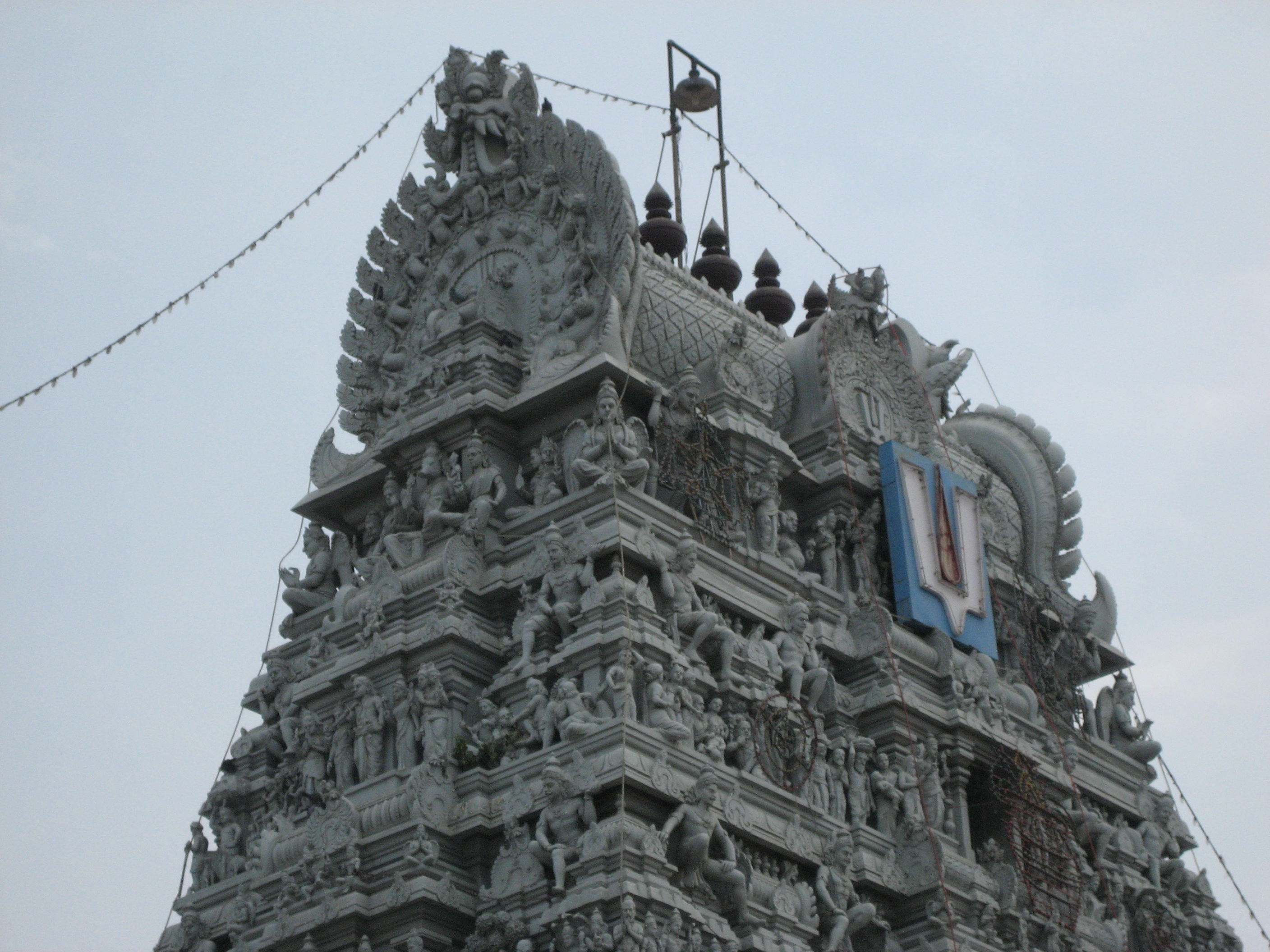 Elaborate carvings on the Parthasarathy temple gopuram at Triplicane, Chennai, India. These carvings are a characteristic of South Indian temple architecture.